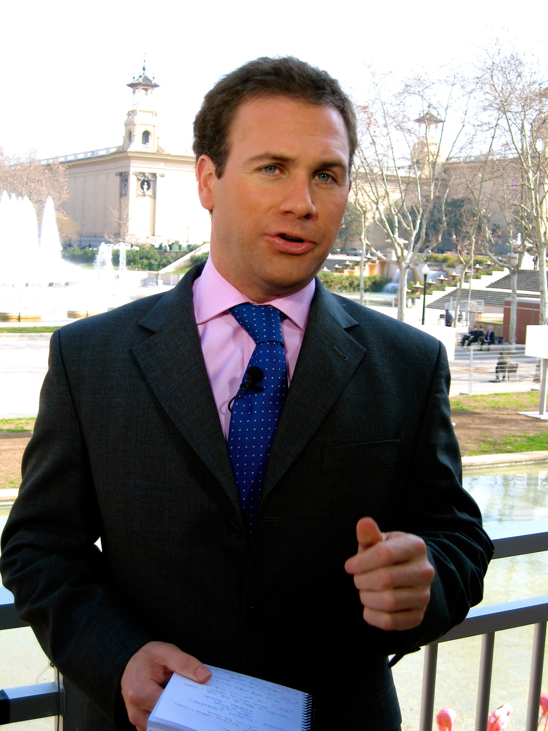 John Dawson (Anchor) Picture